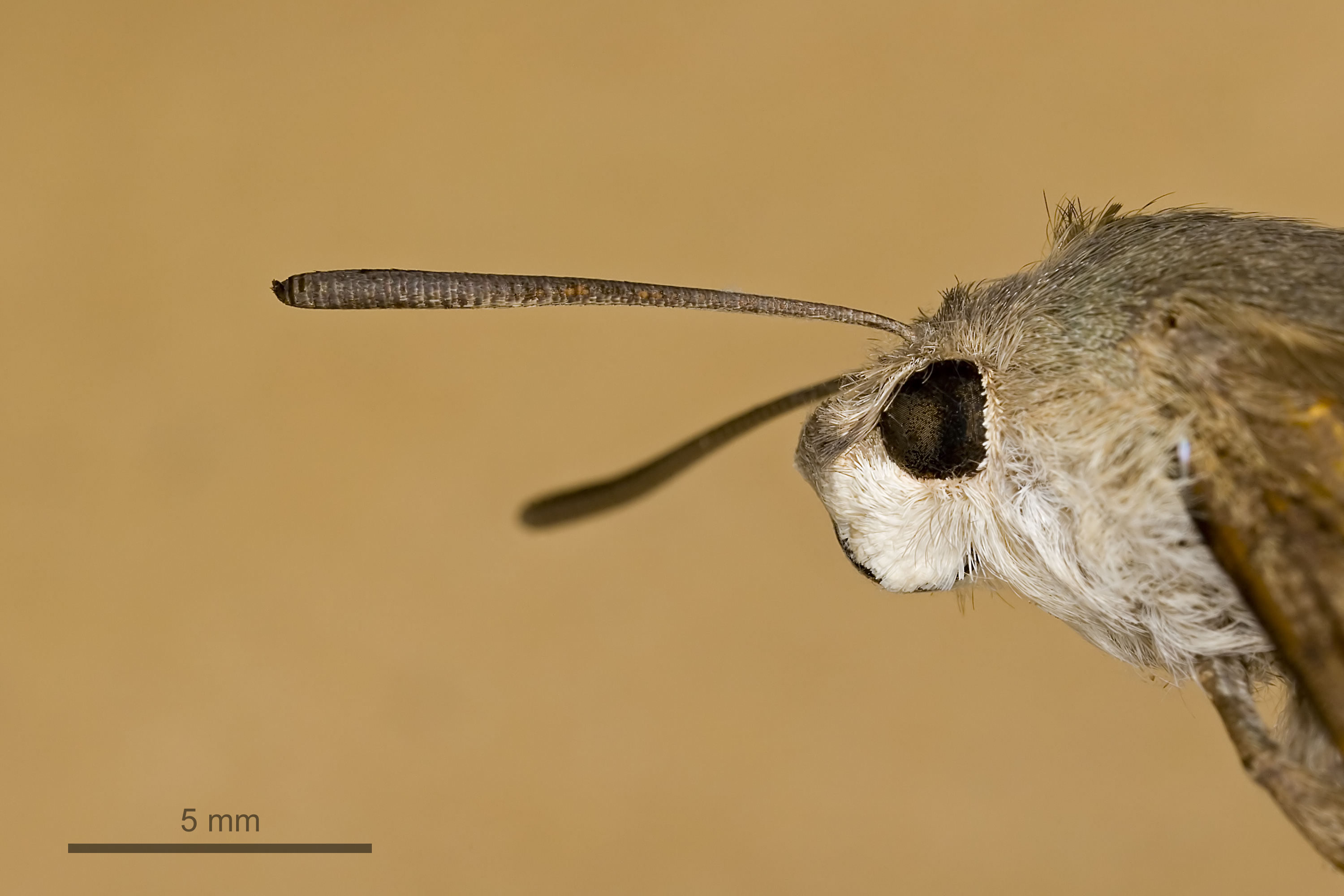 Hummingbird Hawk-moth